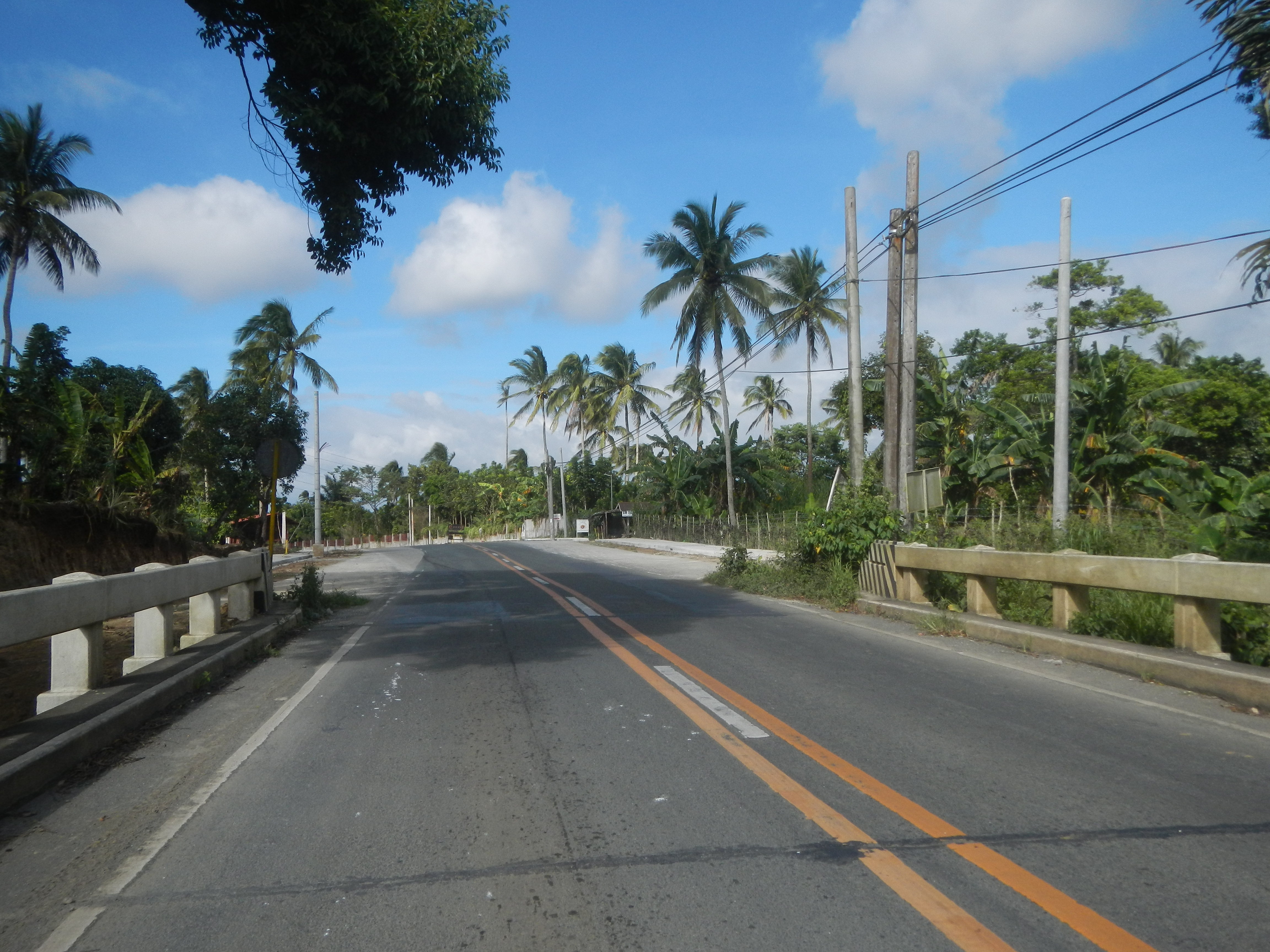 Welcome arch of Indang in Mendez, Cavite Italaro Bridge, Indang-Mendez, Cavite Mendez, Cavite Indang–Mendez Road N402 highway (Philippines) N402 highway (Philippines - Indang to Mendez Road) to N402 highway Naic Barangays Poblacion 1, 2, 3 & 4 14°11'51"N 120°52'36"E Kayquit I, II & III 14°10'31"N 120°53'4"E Buna Lejos 14°10'41"N 120°53'31"E Buna Cerca 14°10'58"N 120°53'17"E Mahabang Kahoy Cerca 14°9'52"N 120°54'2"E Indang along Trece Martires–Indang Road Philippine highway network (Note: Judge Florentino Floro, the owner, to repeat, Donor Florentino Floro of all these photos hereby donate gratuitously, freely and unconditionally all these photos to and for Wikimedia Commons, exclusively, for public use of the public domain, and again without any condition whatsoever).